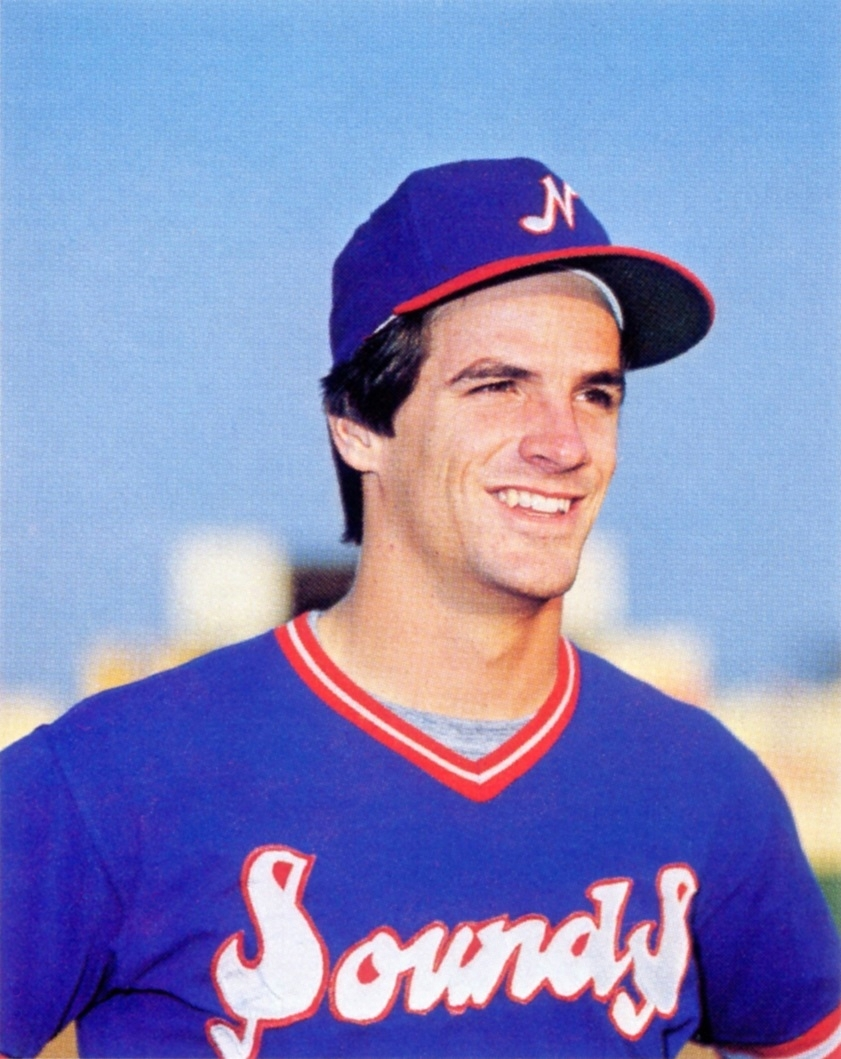 Pitcher Jamie Werly of the 1981 Nashville Sounds Minor League Baseball team of the Southern League